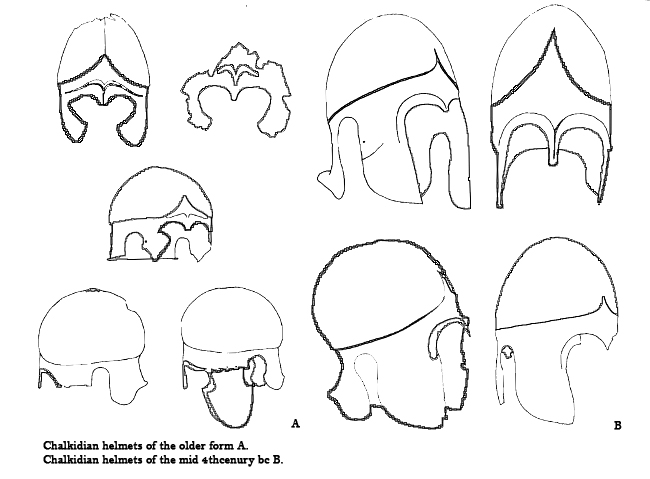 Chalcidian type helmets worn by Thracians,mid 4th century BC and older forms Own work data from; The Odrysian Kingdom of Thrace: Orpheus Unmasked (Oxford Monographs on Classical Archaeology) by Z. H. Archibald,1998,ISBN-10-0198150474